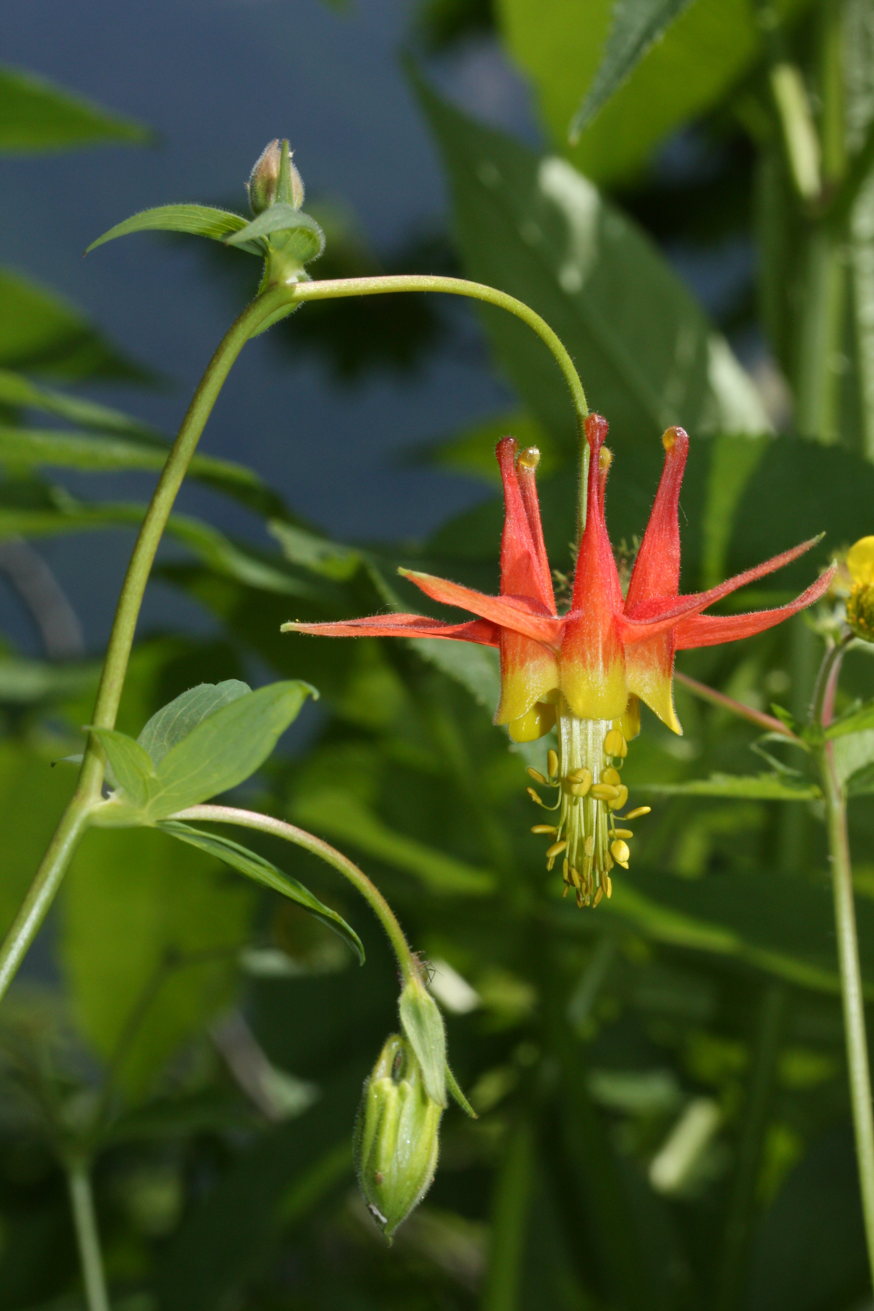 Red Columbine, Western Columbine, Sitka Columbine